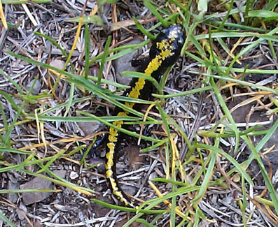 Long-toed salamander (Ambystoma macrodactylum)